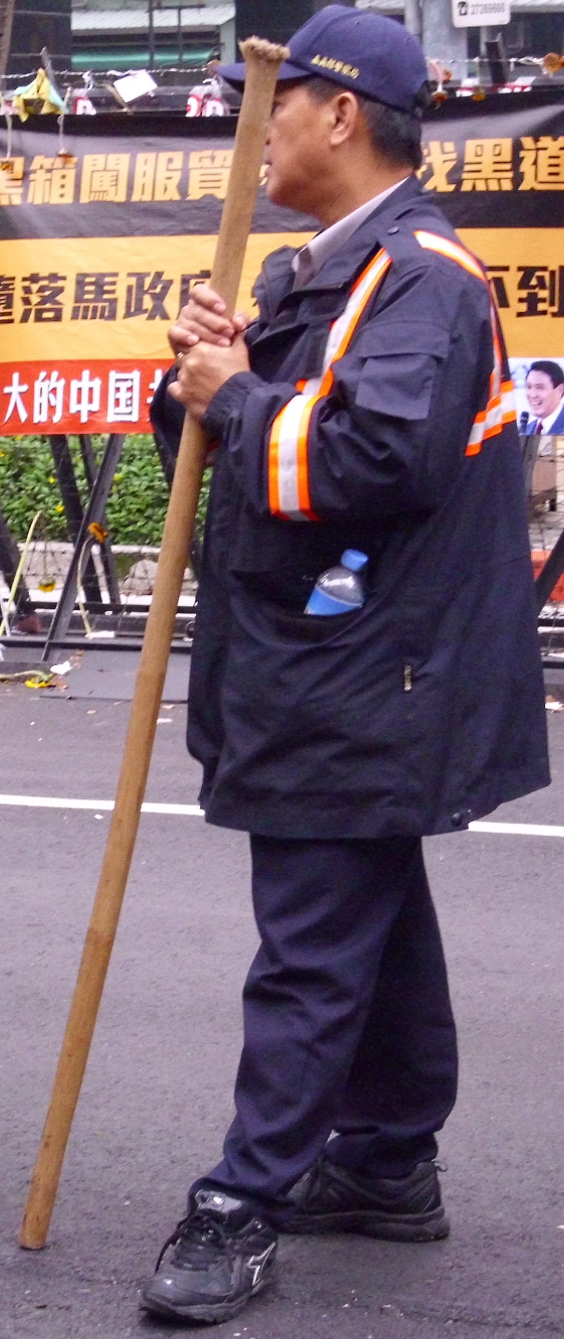 Chiayi County Police officer holding a long truncheon in the scene of Sunflower Movement. 中文（台灣）: 太陽花學運現場拿著長警棍的嘉義縣警察局警察。